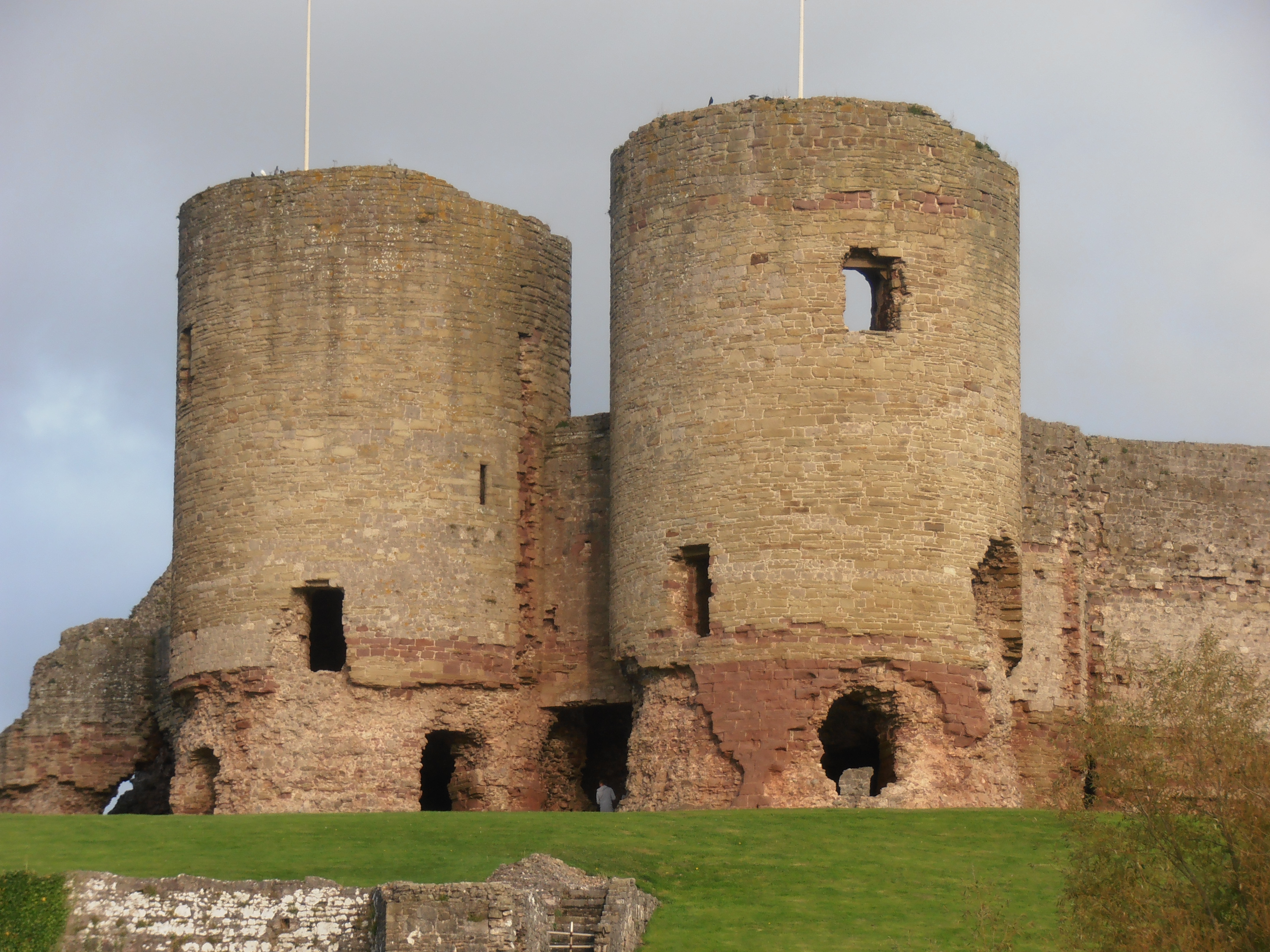 Castell Rhuddlan Castle, Denbighshire, North Wales